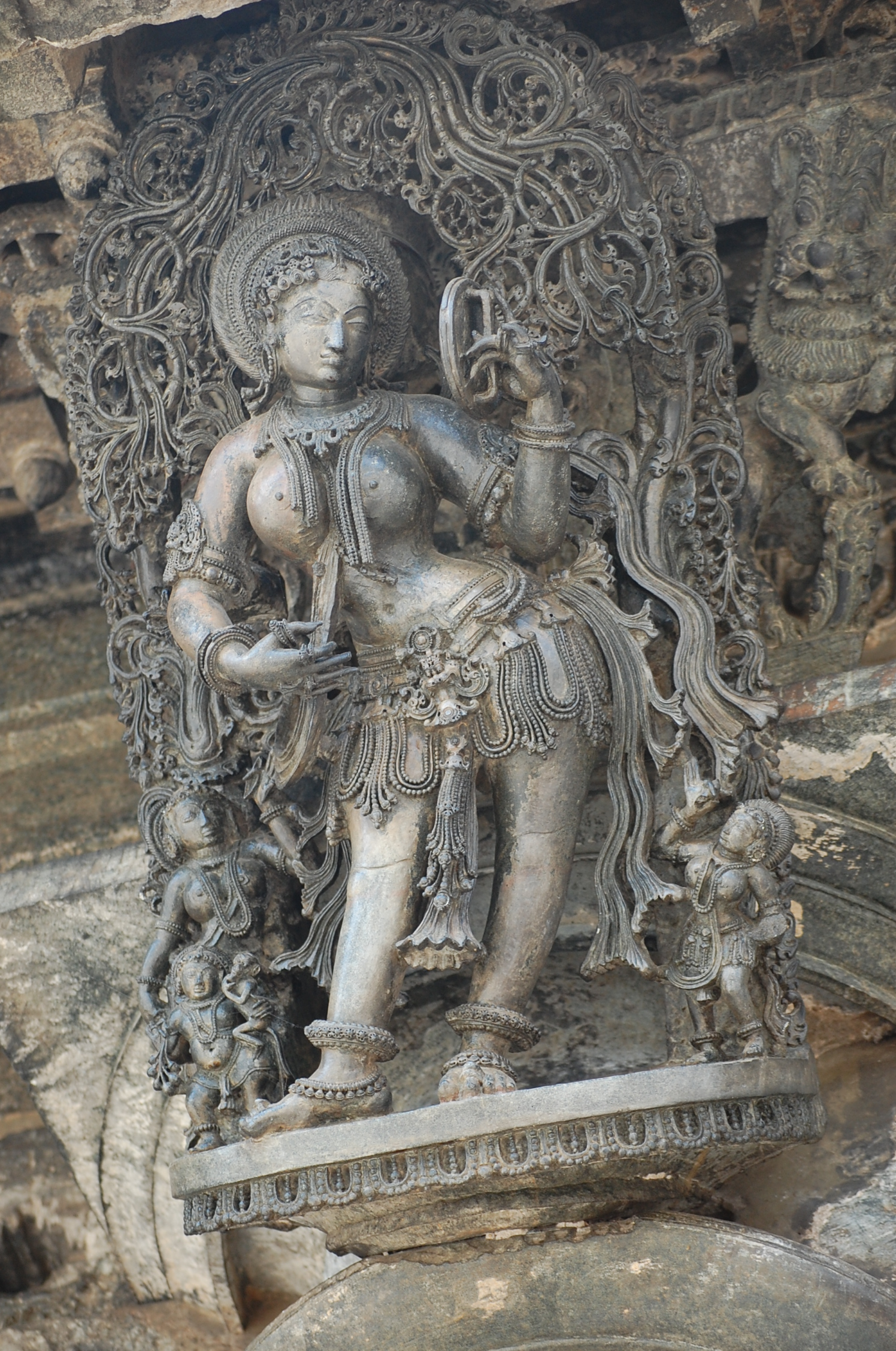 Belur Temple Apsara with Mirror